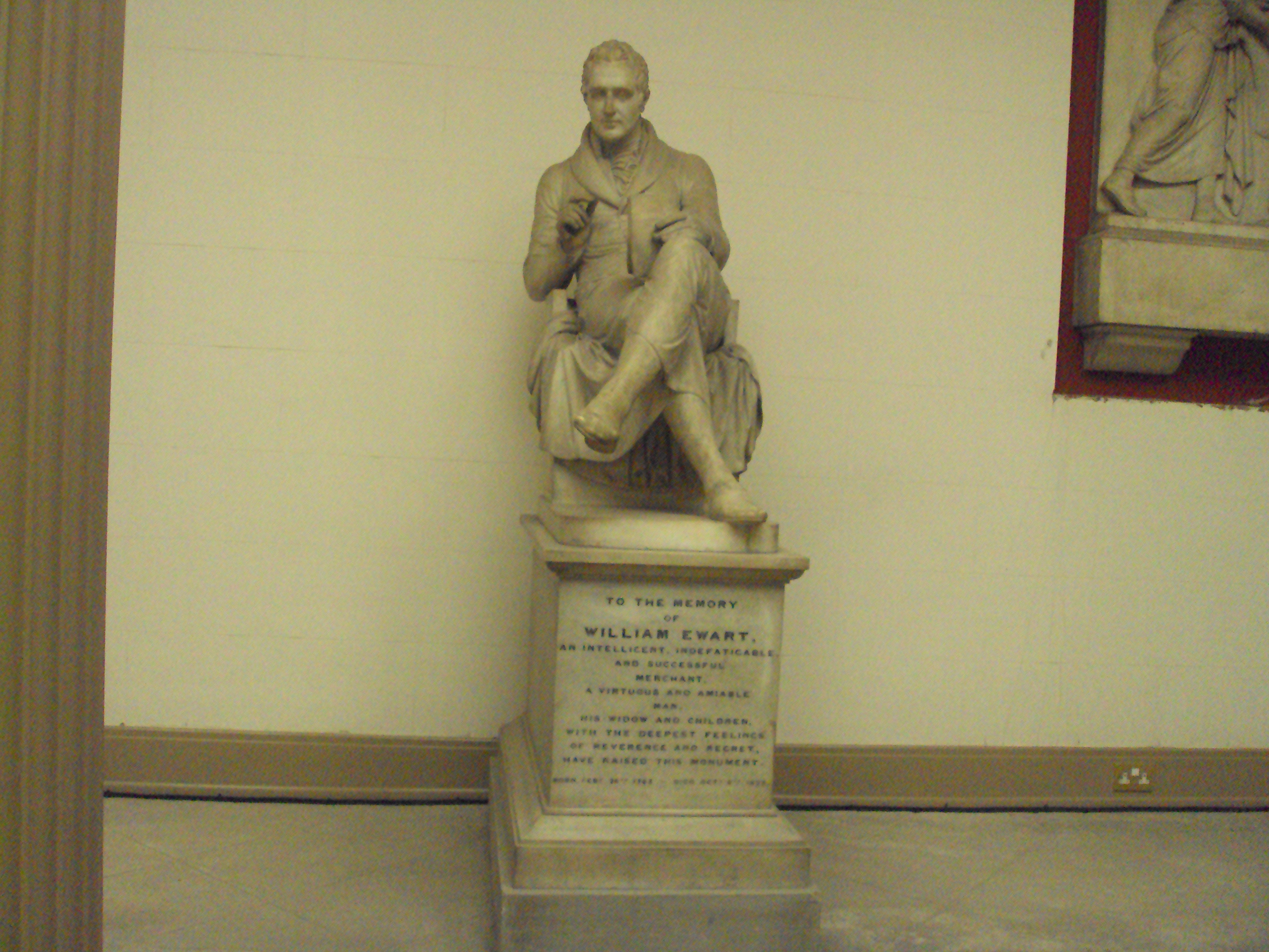 William Ewart statue, The Oratory, St James Cemetery, Liverpool.